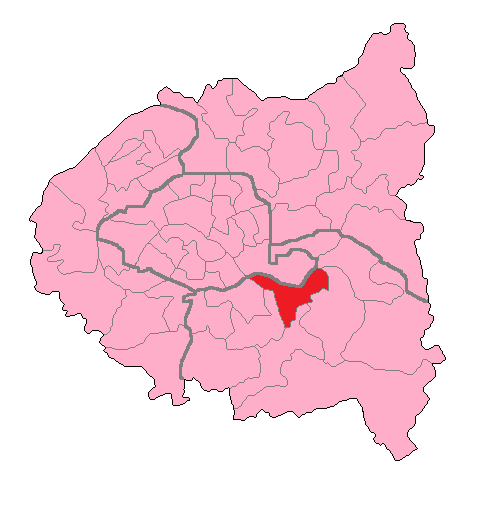 Map of Val-de-Marne's 8th constituency shown within Ile-de-France (Petite Couronne)